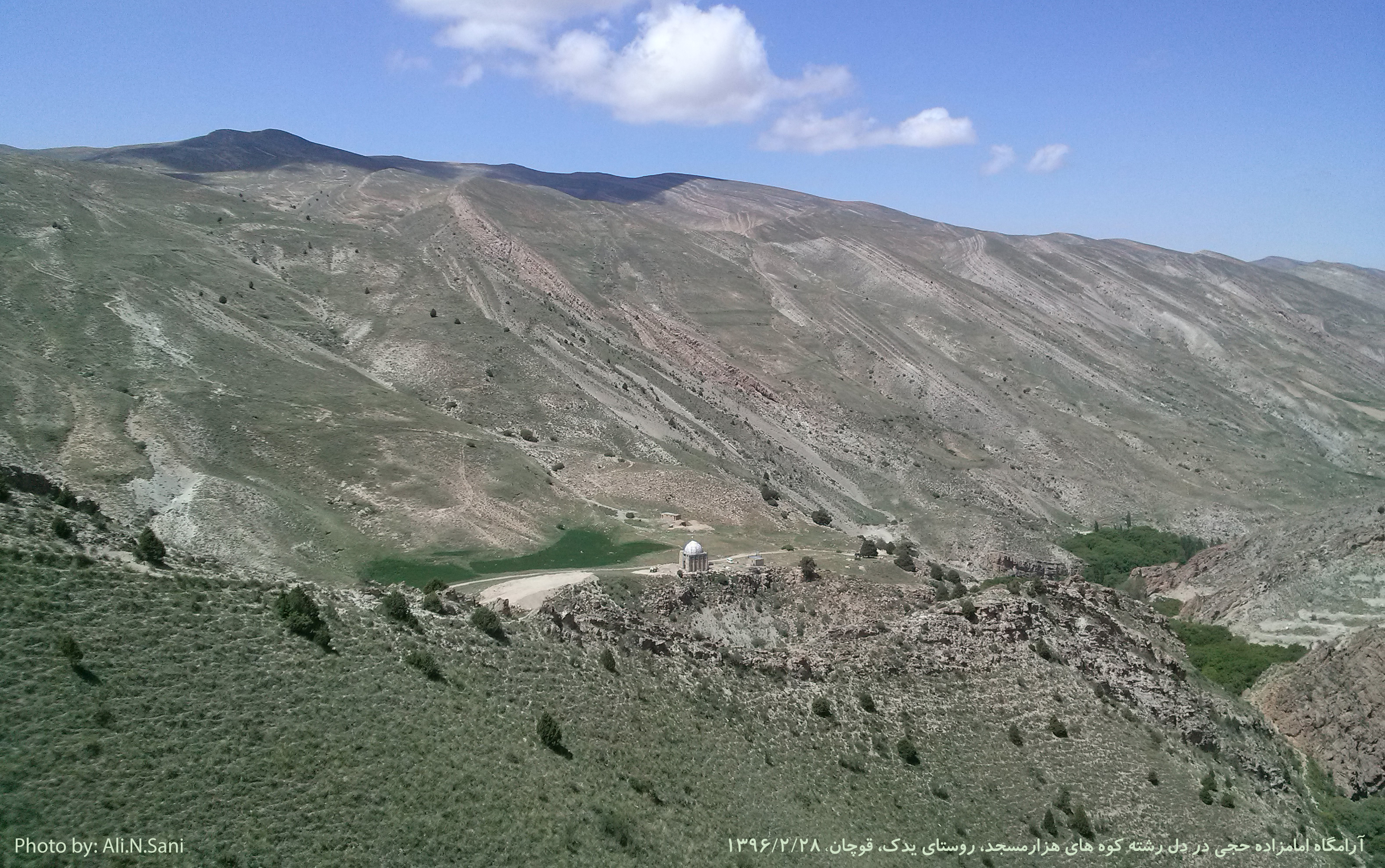 Imamzadeh Haji in Yadak Village, Quchan County, Iran